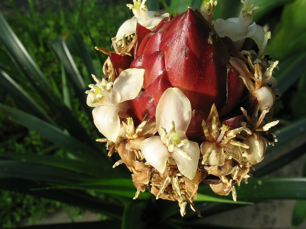 Guzmania farciminiformis in cultivation at the Botanical Garden of Heidelberg, Germany.